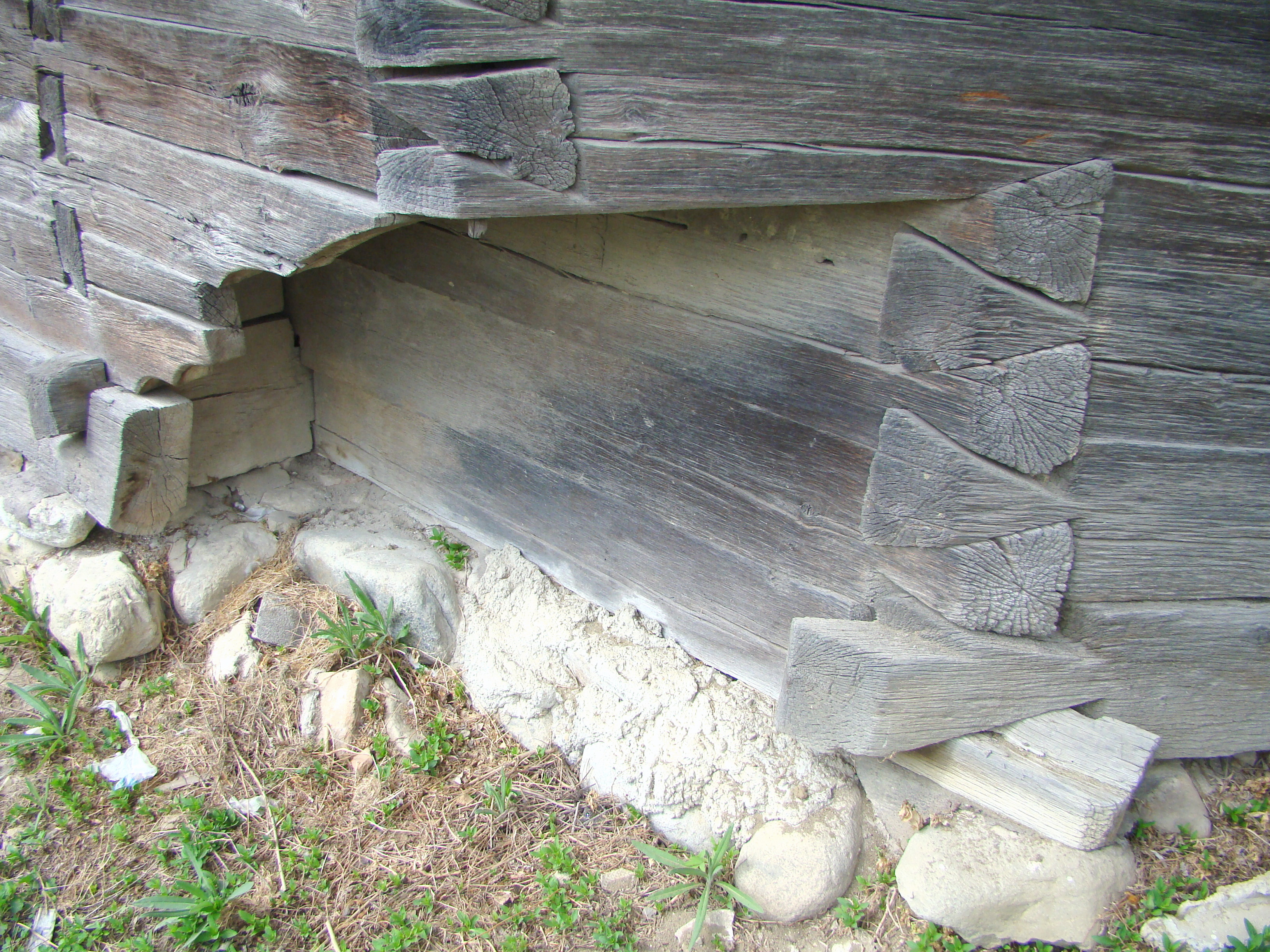 Wooden church of Saint Paraskeva in Glodeni, Gorj county, Romania